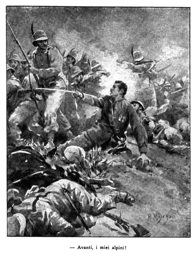 1 March 1896 Battle of Adwa. Lieutenant Colonel Davide Menini, commander of the 1st Battalion of Alpini d'Africa, severely wounded, encourage the alpine assault.